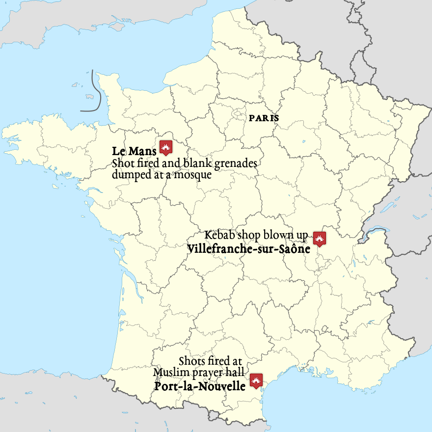 Antimuslimness, Muslimophobia, antimuslimists and Islamophobic attacks: Map shows three incidents that took place the night of 7 January 2015 and in the early hours of the morning across France. Two mosques are attacked and one Muslim-owned business is attacked. Based on